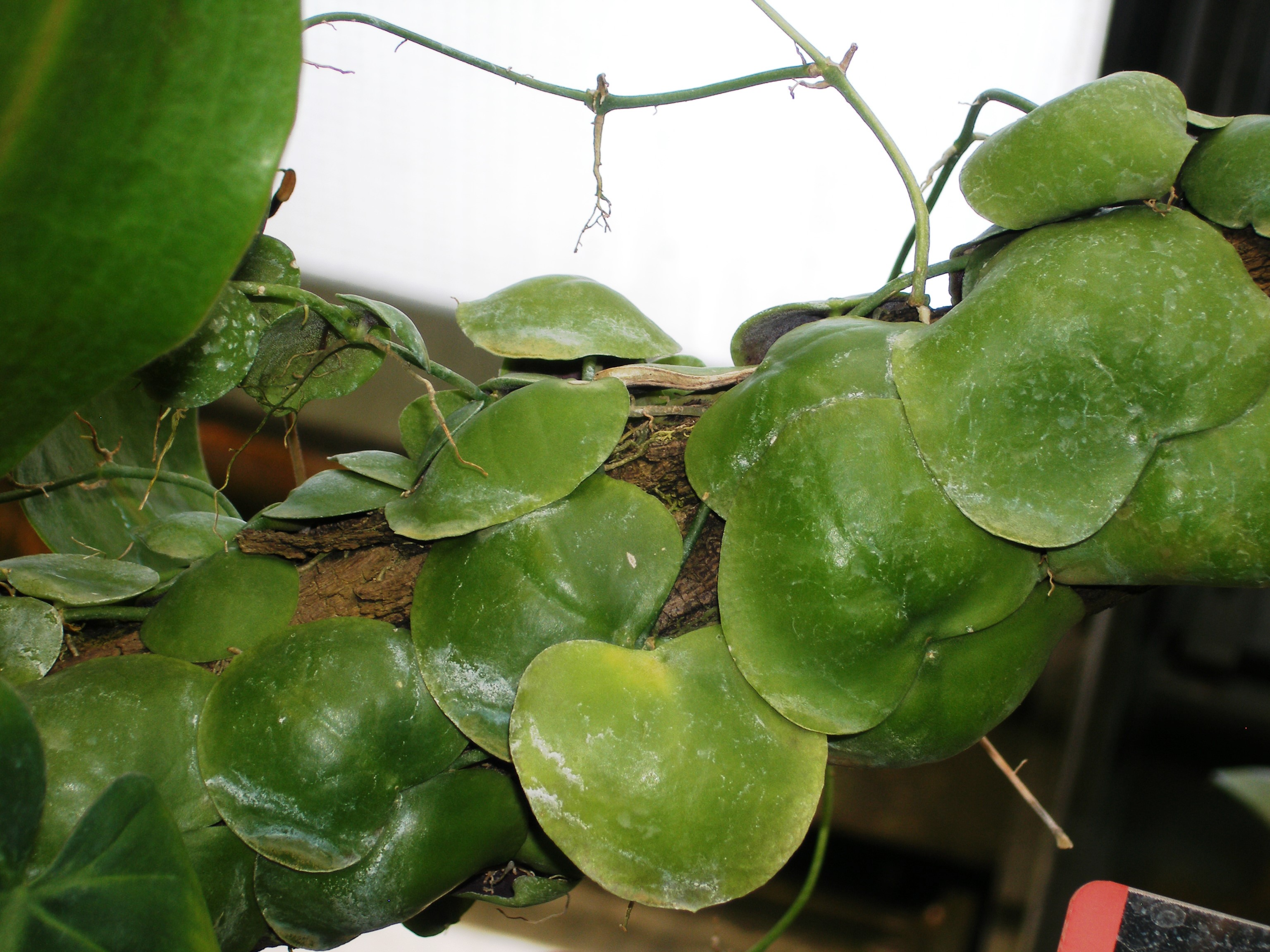 Specimen in cultivation at the Wilhelma Zoologisch-Botanische Garten, Stuttgart, Germany.